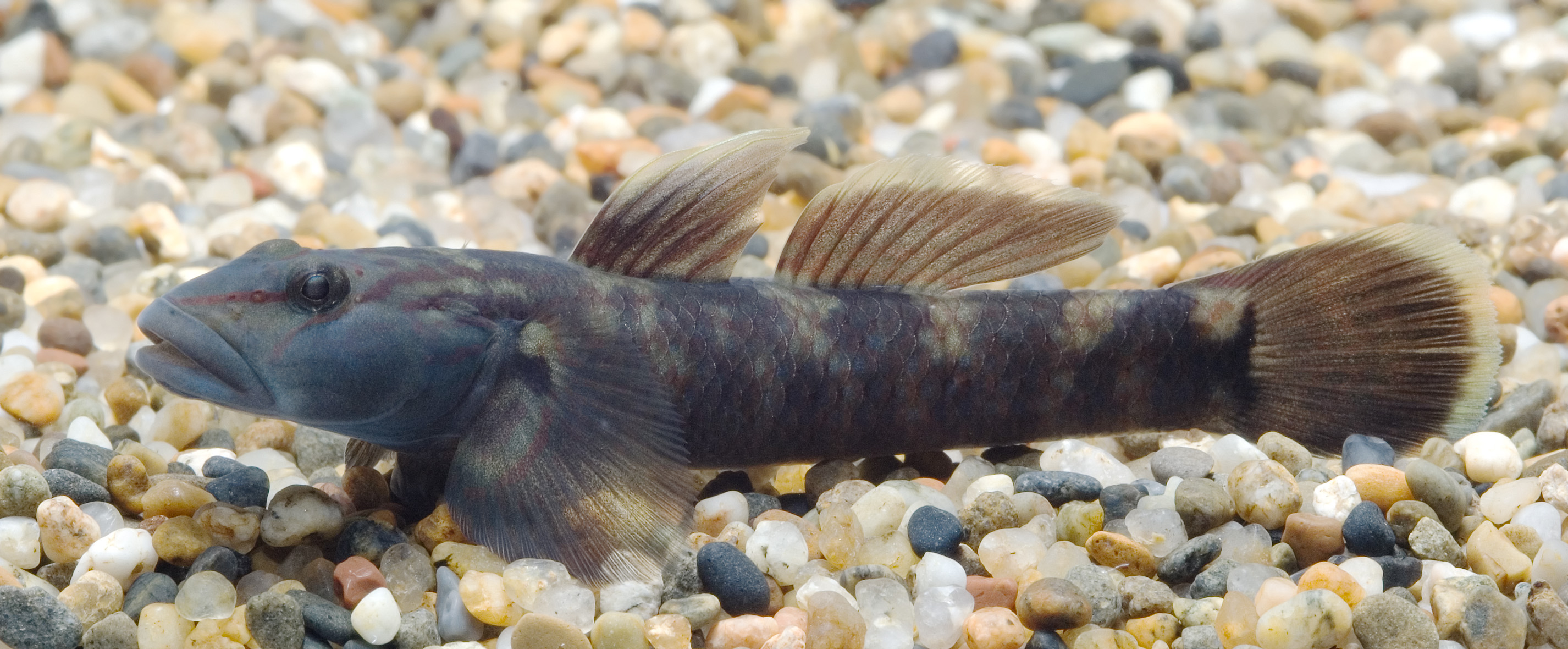 Oyoshinobori, Rhinogobius sp. LD